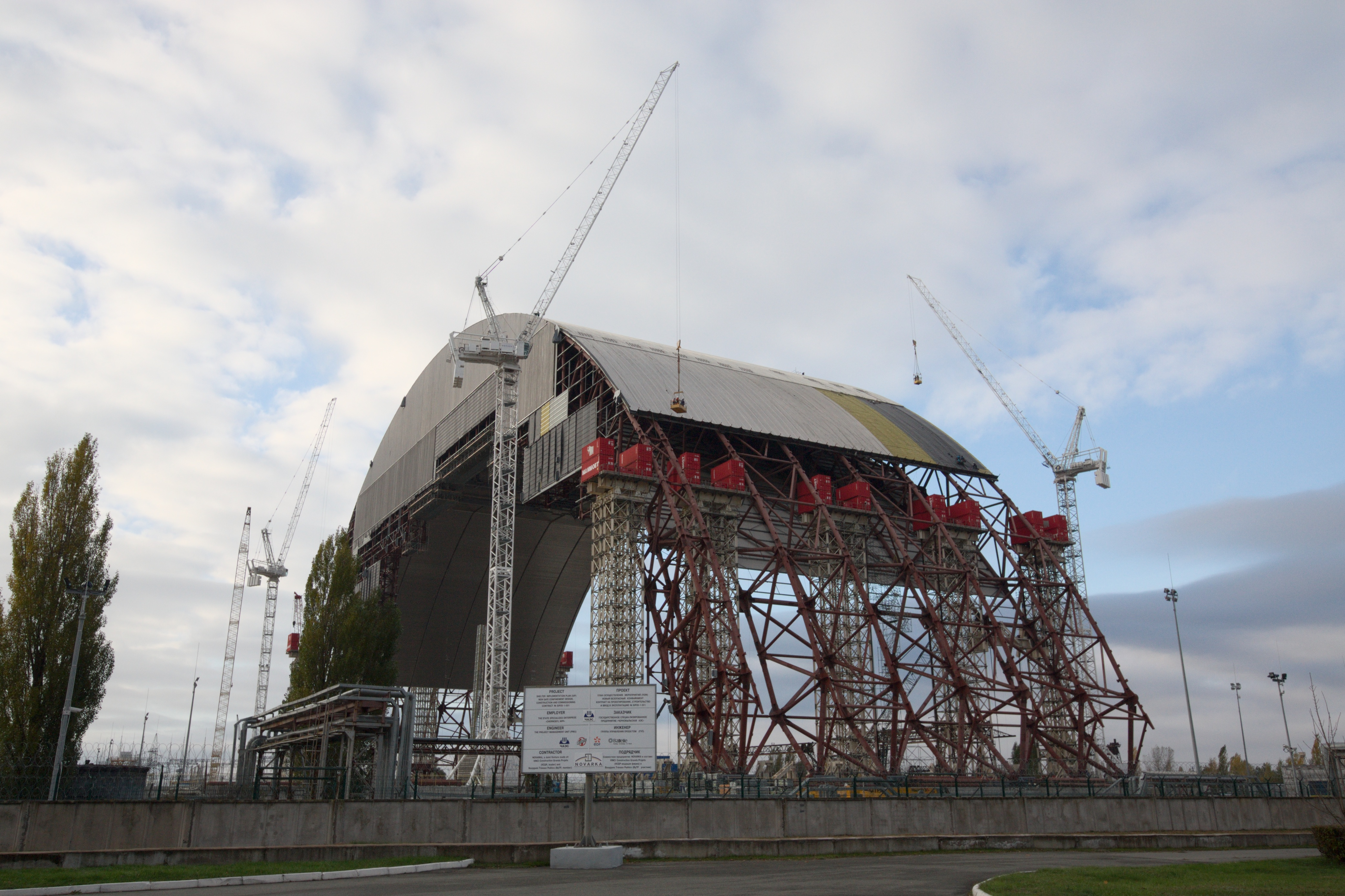 Picture of the New Safe Confinement arch at Chernobyl Nuclear Power Plant. Expected to be completed by 2022. (ChNPP)